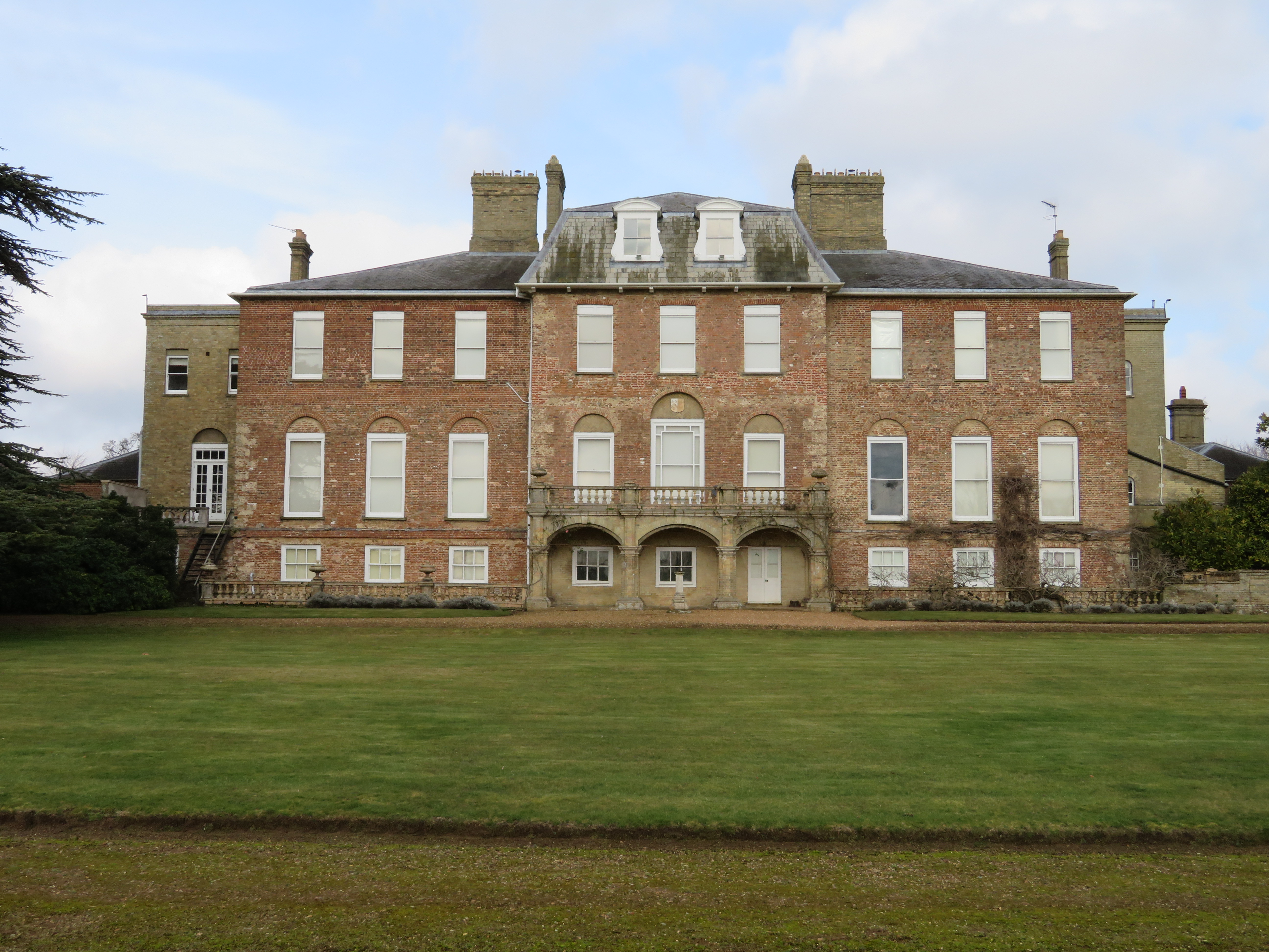 The southern facade of Ryston Hall in Norfolk